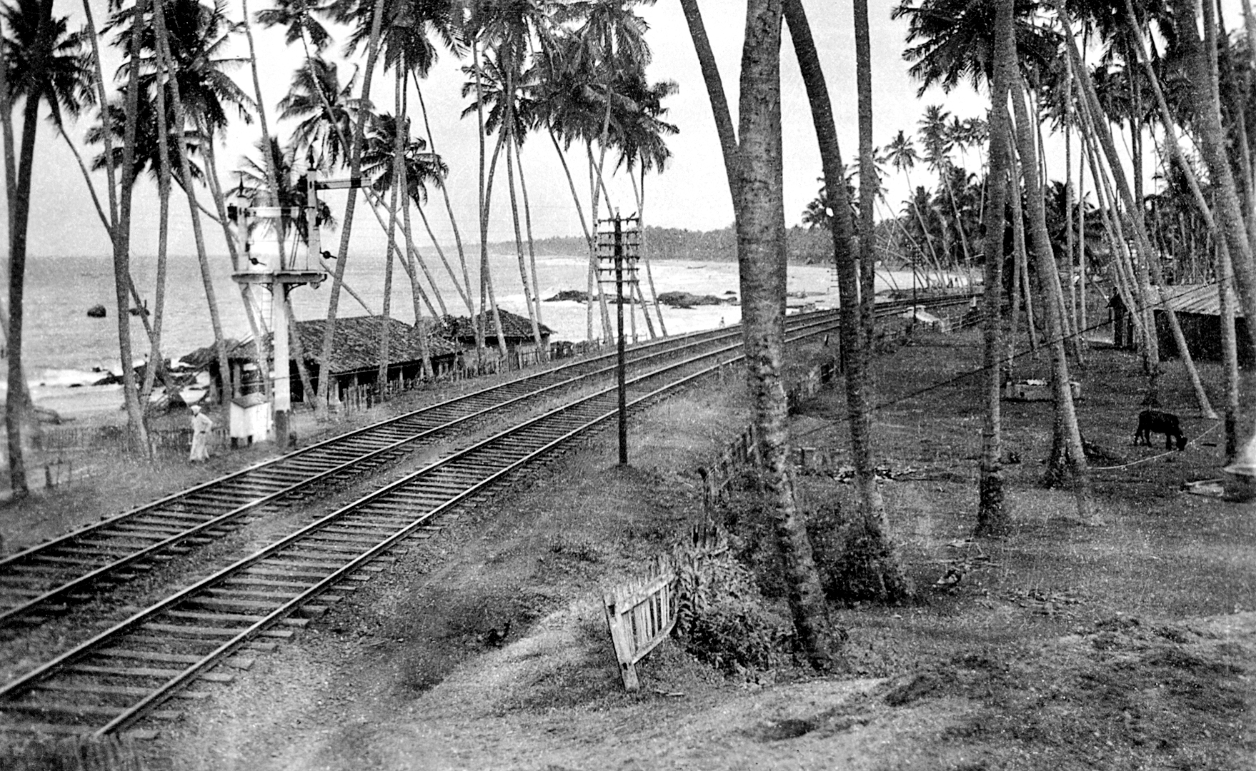 A photo of the coastal railway lines near Colombo, taken on 1 October 1940 by Driver Tom Beazley of the 2/8 Infantry Battalion Reinforcements, 6th Division, 2nd Australian Imperial Force, using a KODAK Six-20 Popular Brownie box camera, with KODAK 120 B&W roll film. Digitized using a CANON Canoscan 8800F scanner, and restored quality using Adobe Photoshop Creative Suite 8.0 by Flickr user aussiejeff.